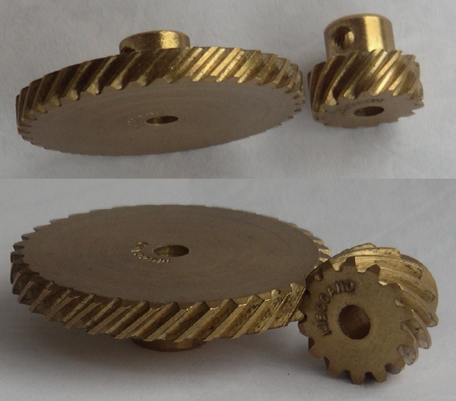 This is a composite image made from my own photographs of gears from a Meccano Set. Note that the gears do not mesh in the parallel example, it is for illustration only.